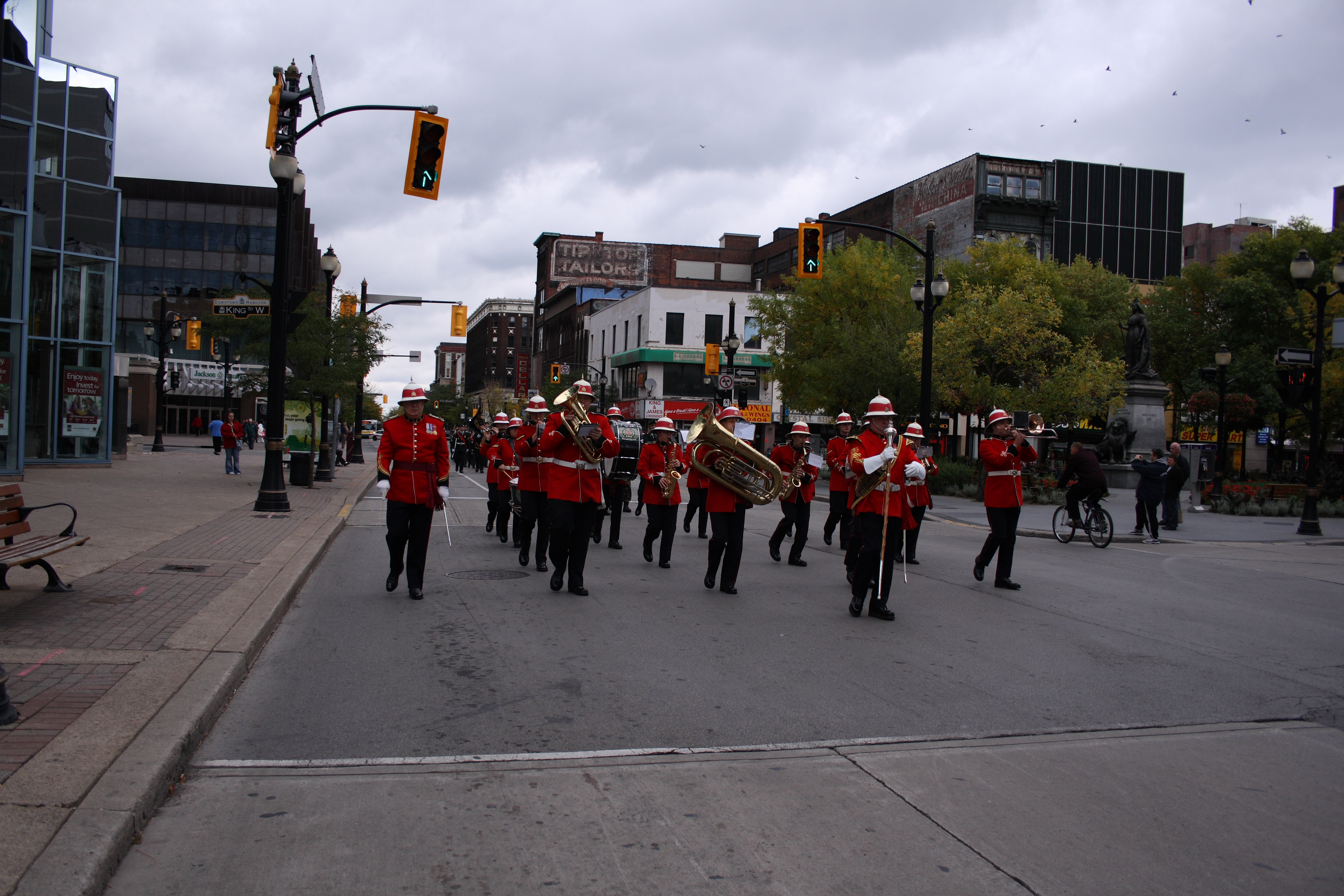 The Royal Hamilton Light Infantry, a Canadian Forces reserve unit marching from their barracks to church. The Royal Hamilton Light Infantry, a Canadian Forces reserve unit marching from their barracks to church.